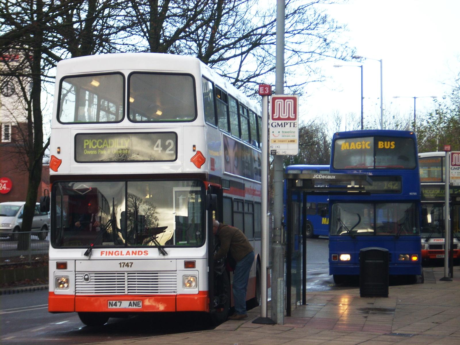 Finglands and Magic Bus services along the Wilmslow Road bus corridor in Manchester await departure from the southern terminus at Parrs Wood in East Didsbury.